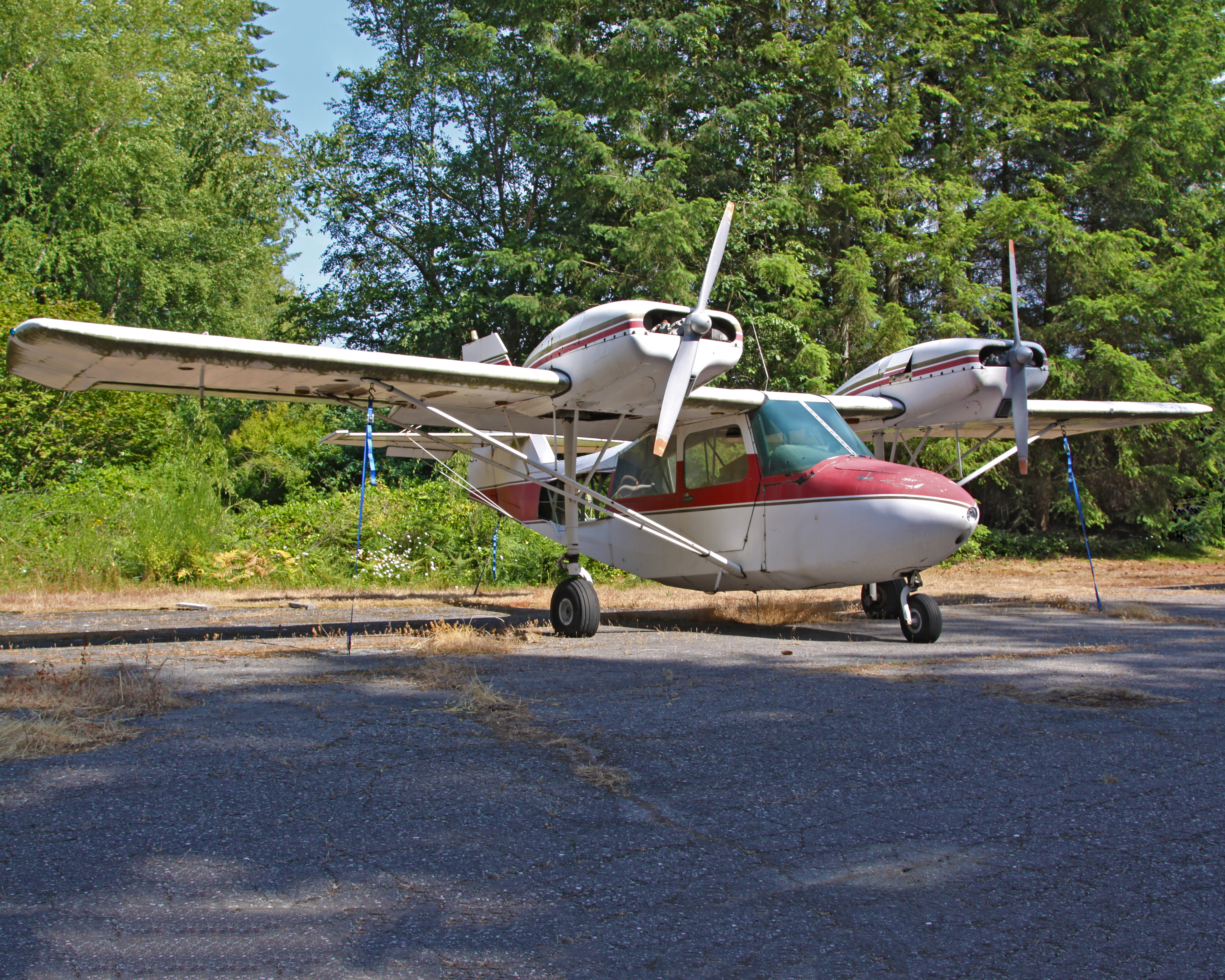 The Champion Lancer prototype, N9924Y, sitting derelict at AWO (Arlington Municipal Airport, Arlington, WA).